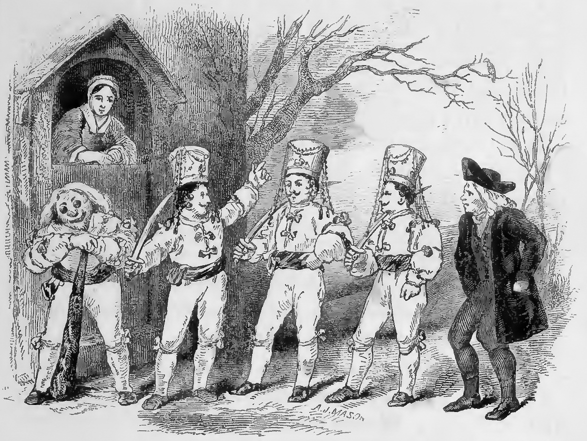 An 1852 depiction of a 'modern' Christmas play (now generally known as a mummers play). The character are, from left to right: Father Christmas, 'represented as as a grotesque old man, with a large mask and comic wig, and a huge club in his hand'; three players, two of whom are St George and the Dragon, 'all attired in much the same manner'; and the doctor. The woman is a spectator.